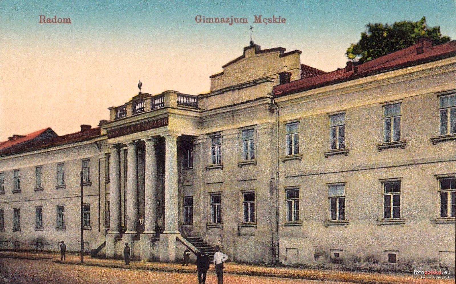 The former Piarist school in Radom, Poland